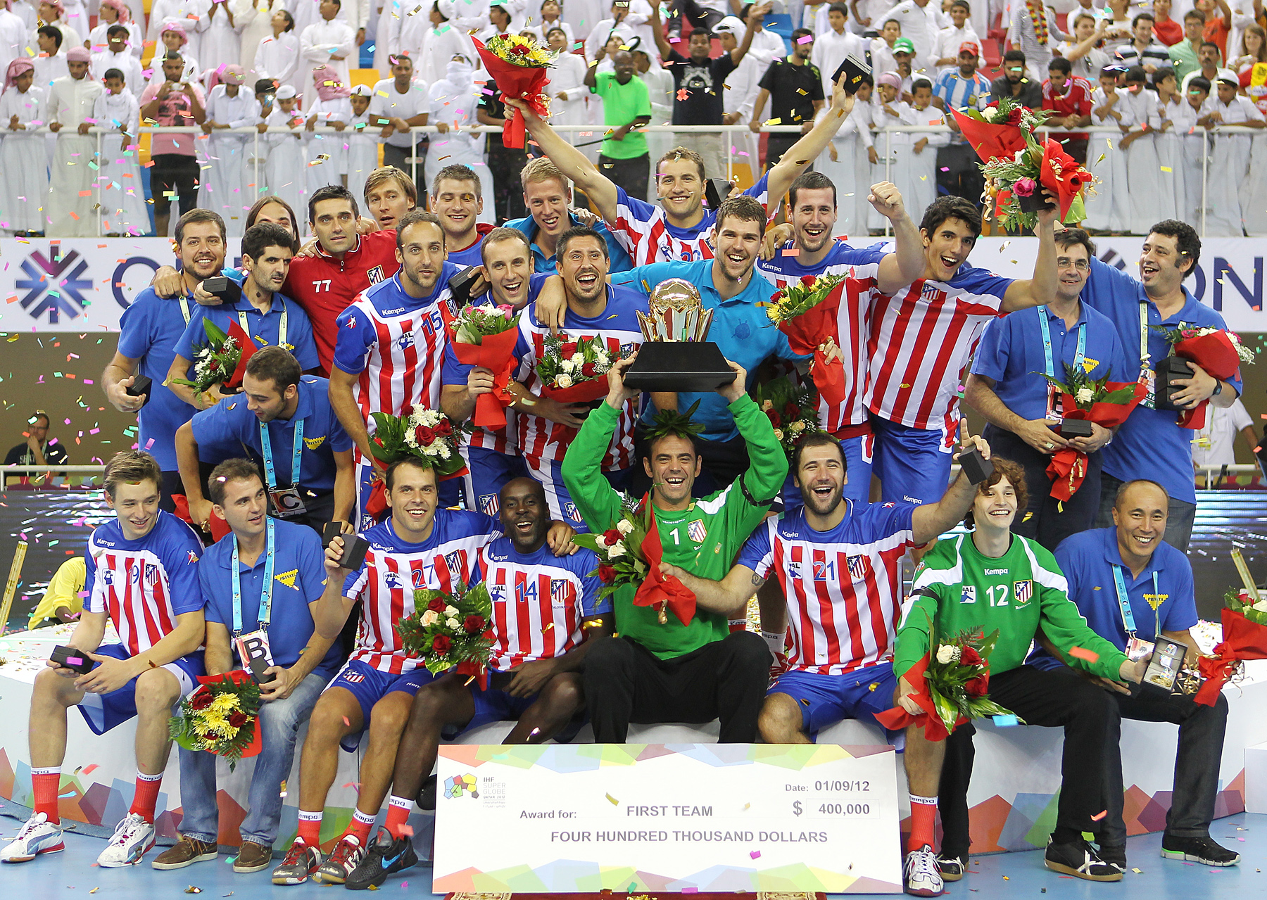 Members of the victorious Atletico Madrid team celebrate with the IHF Super Globe trophy. Picture by Mohan